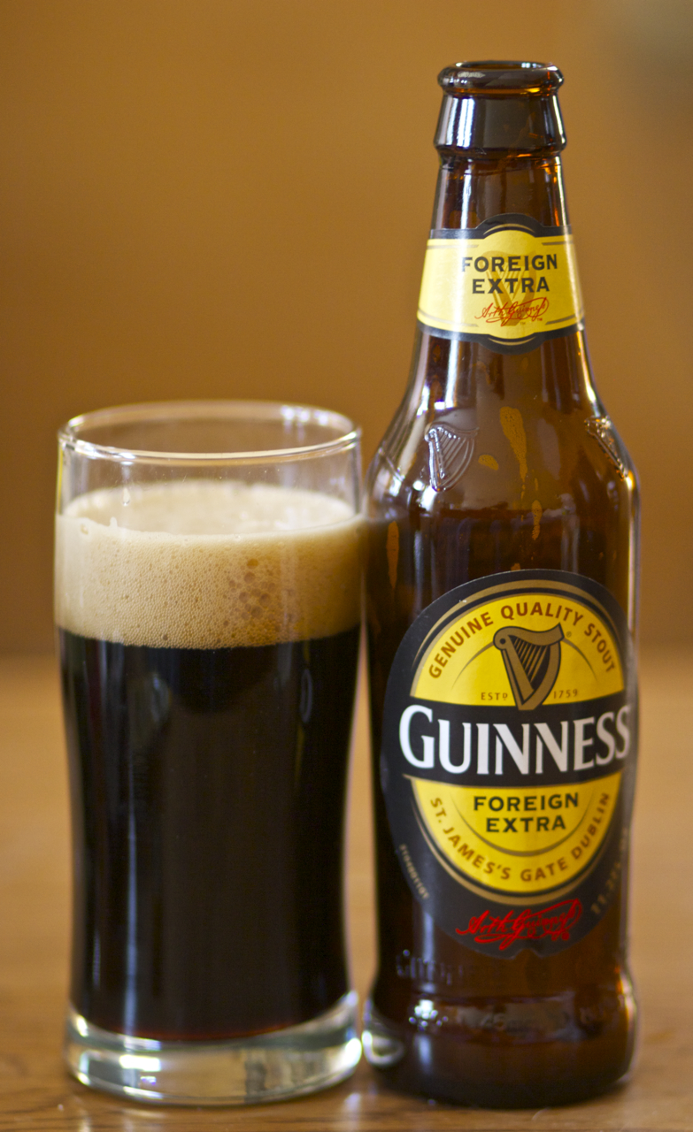 Guinness Extra Export